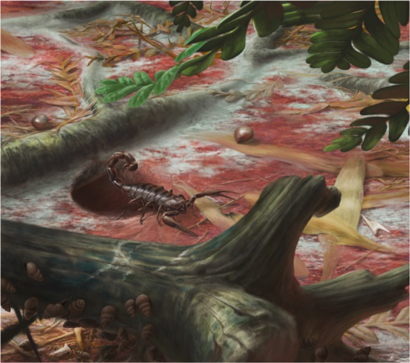 Ecological reconstruction. ?Opsieobuthus tungeri sp. nov. placed in its suggested original environment at the mouth of a burrow on the forest floor.